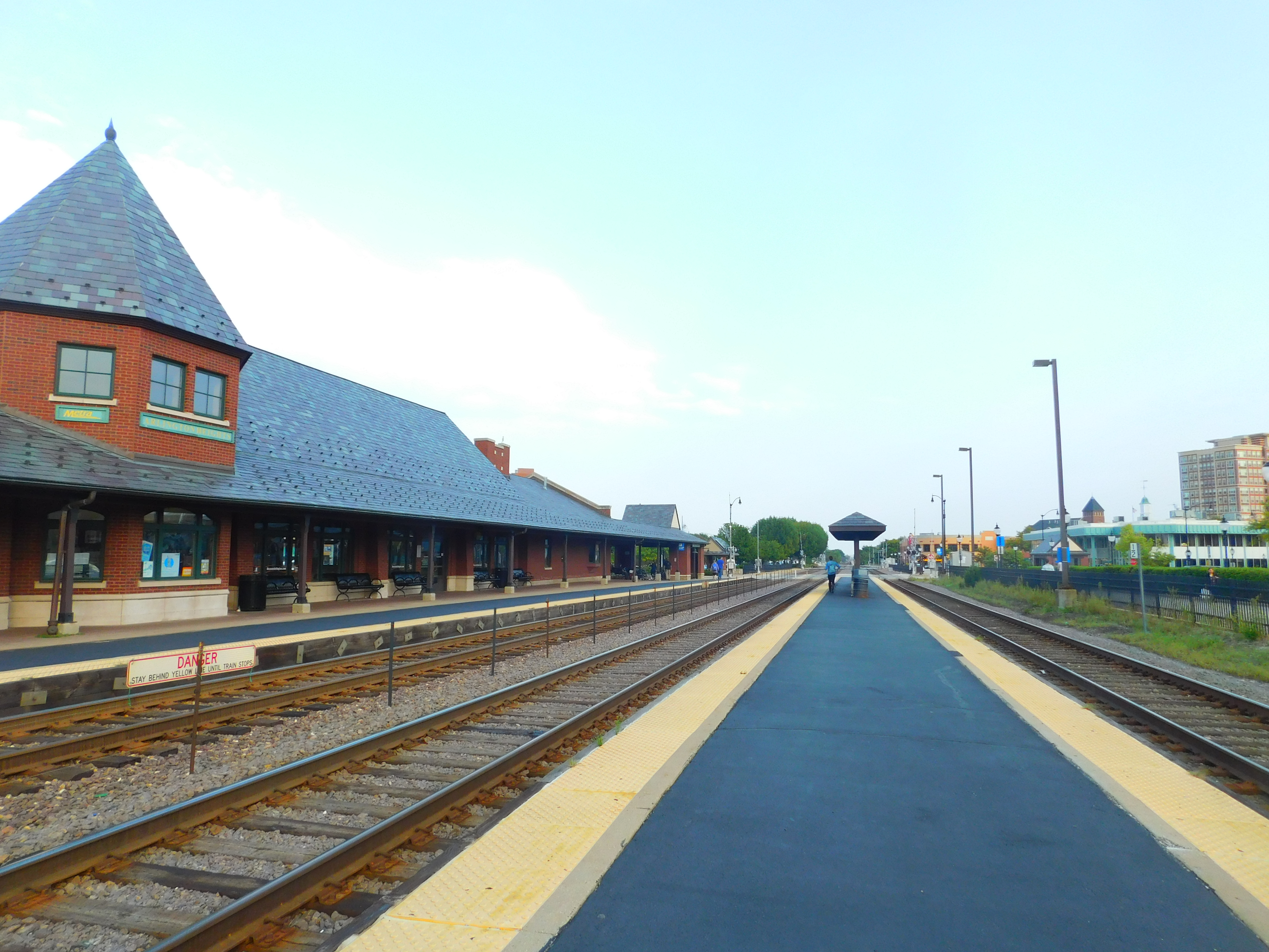 Arlington Heights, llinois